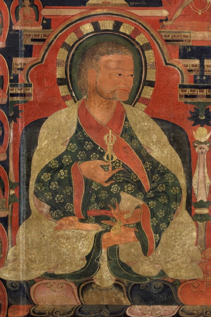 Drakpa Gyaltsen (b.1147 - d.1216), 5th Sakya Trizin, it is the part of a larger painting with ( it is described as "The main student of Jetsun Dragpa Gyaltsen was his nephew, son of Palchen of Opoche the famous Sakya Pandita Kunga Gyaltsen (1182-1251)" here